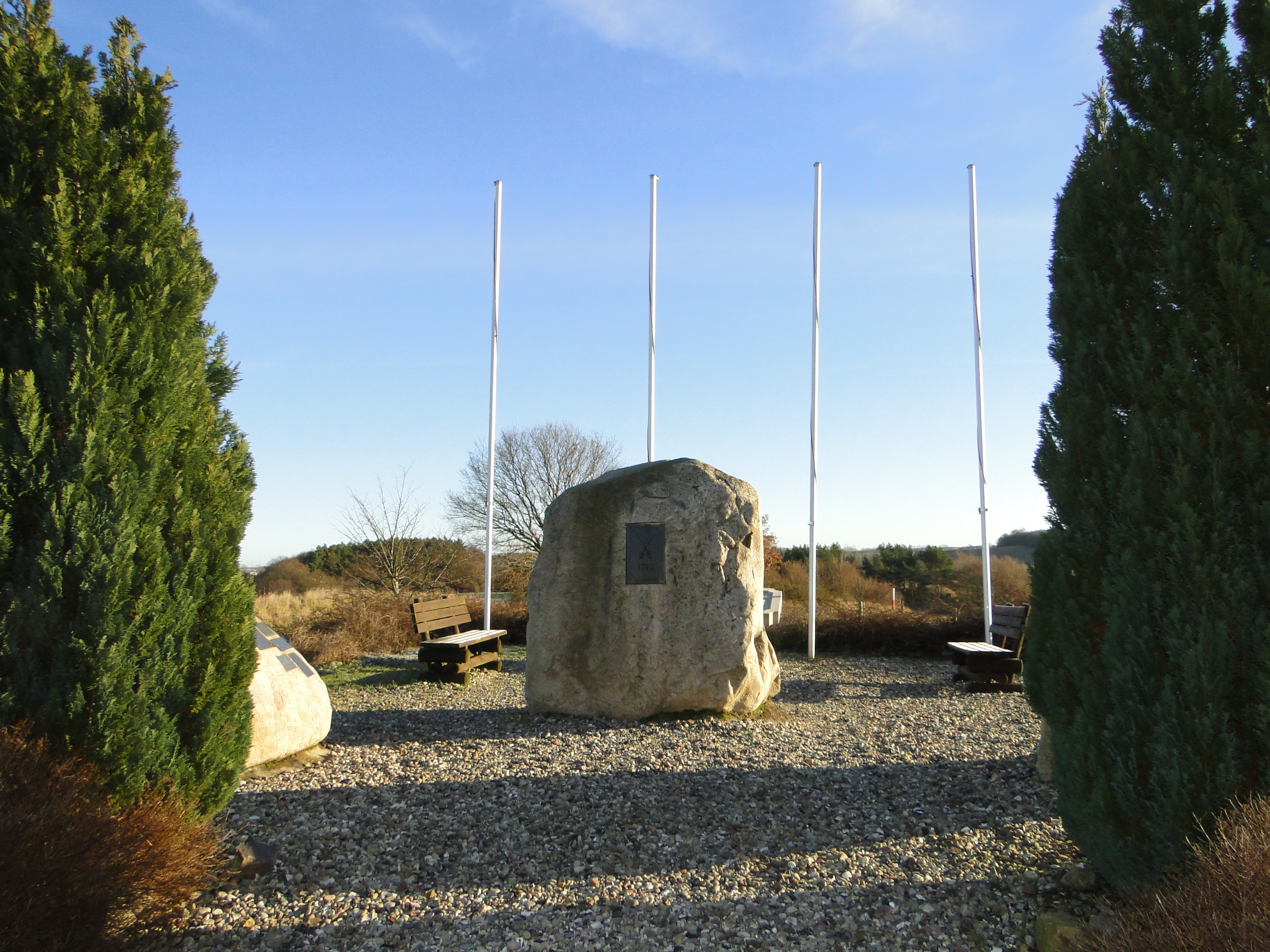 Memorial for the Battle of Gadebusch 1712 in Wakenstädt, district Nordwestmecklenburg, Mecklenburg-Vorpommern, Germany